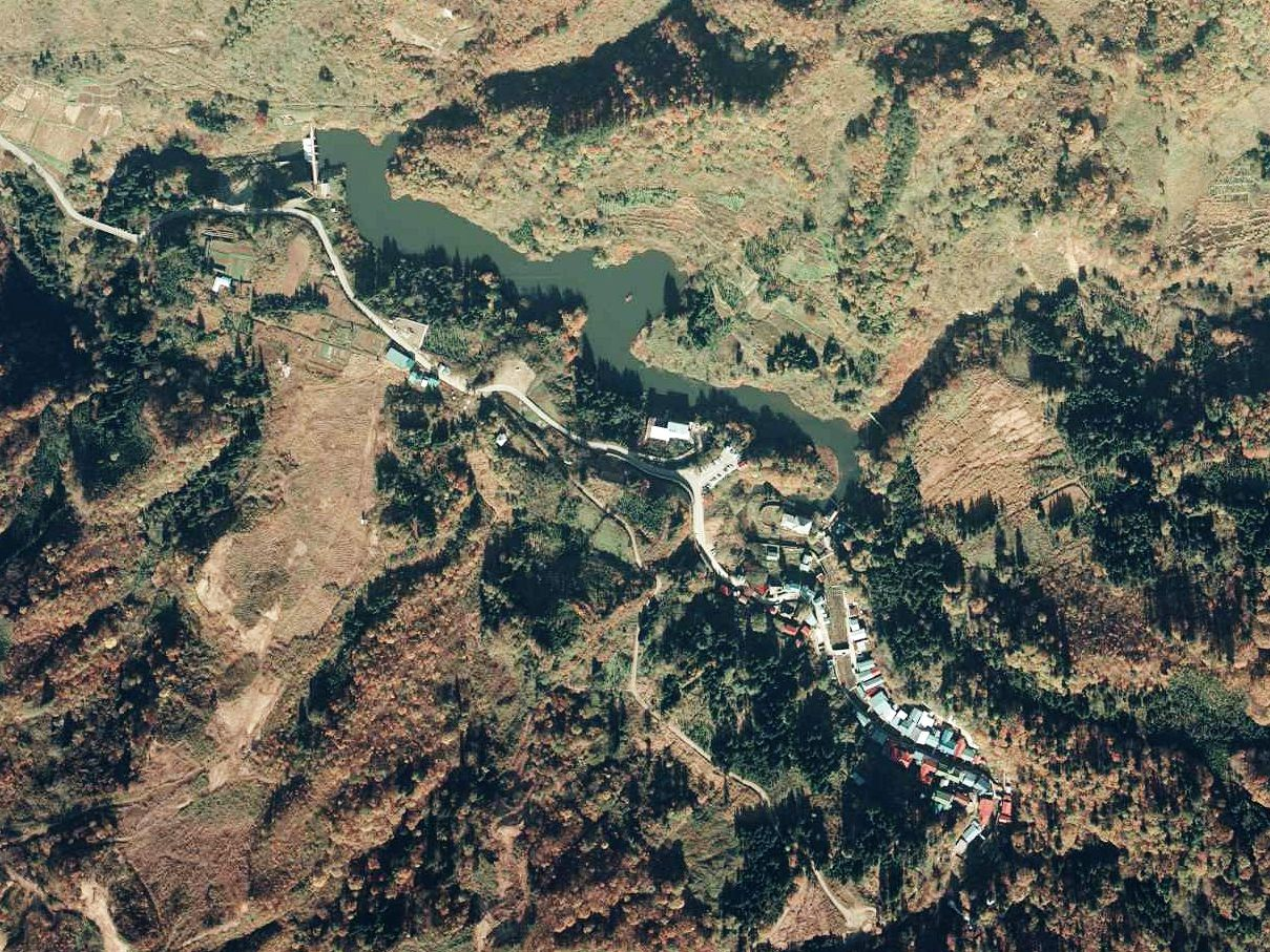 Ginzan Onsen and Ginzangawa Dam.